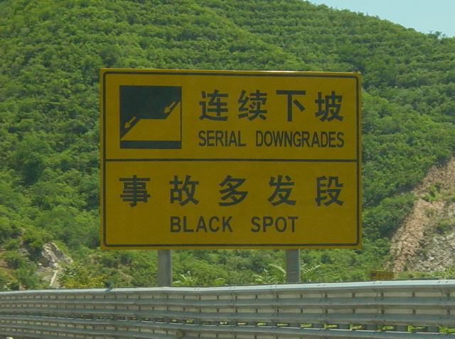 The ubiquitous warning signal alerting drivers not to drive too quickly in the "Valley of Death" on the Badaling Expressway.